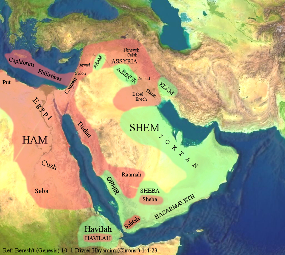 The Middle East through the eyes of the Ancient Israelites.